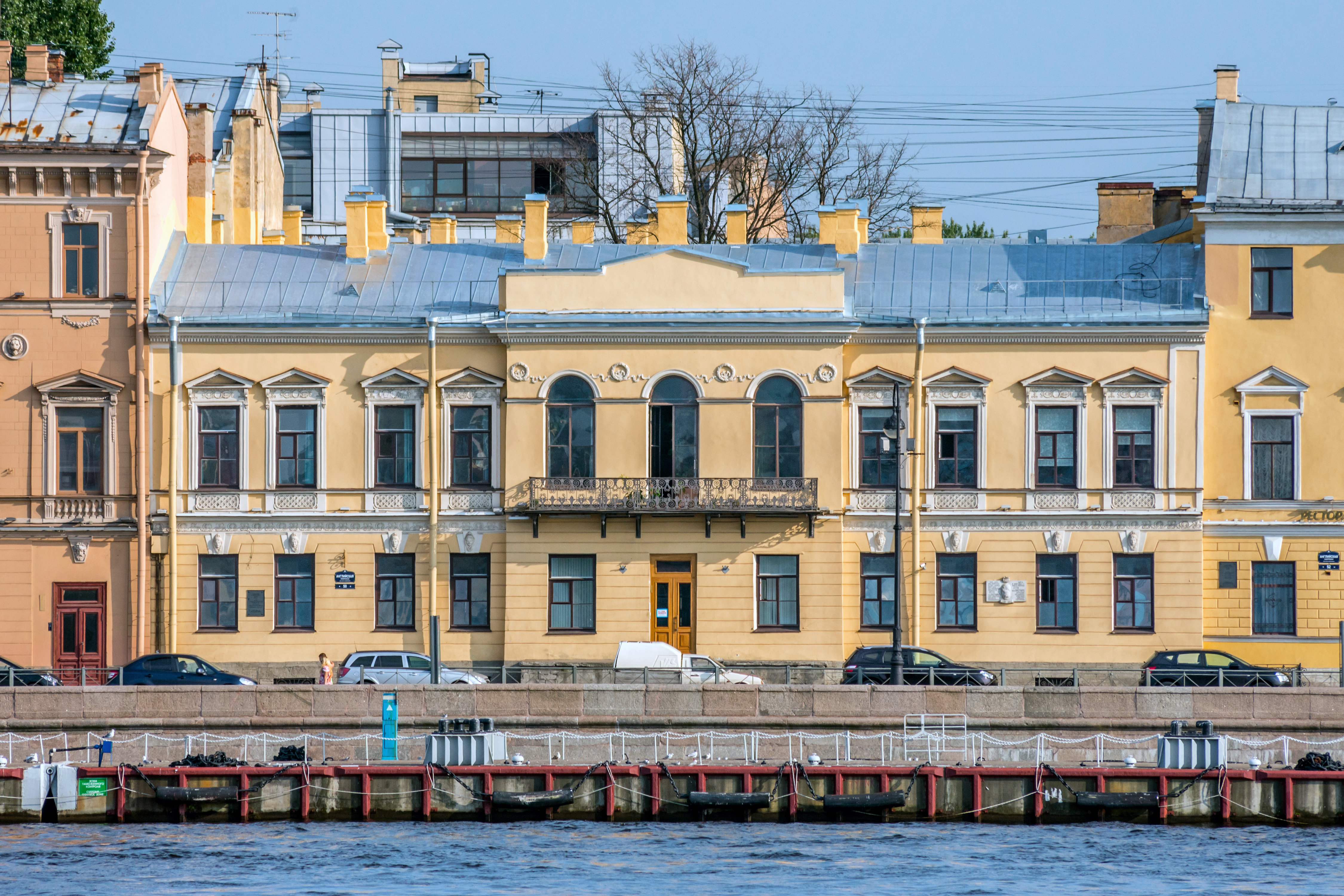 Angliyskaya Embankment in Saint Petersburg. Stenbock-Fermor Mansion